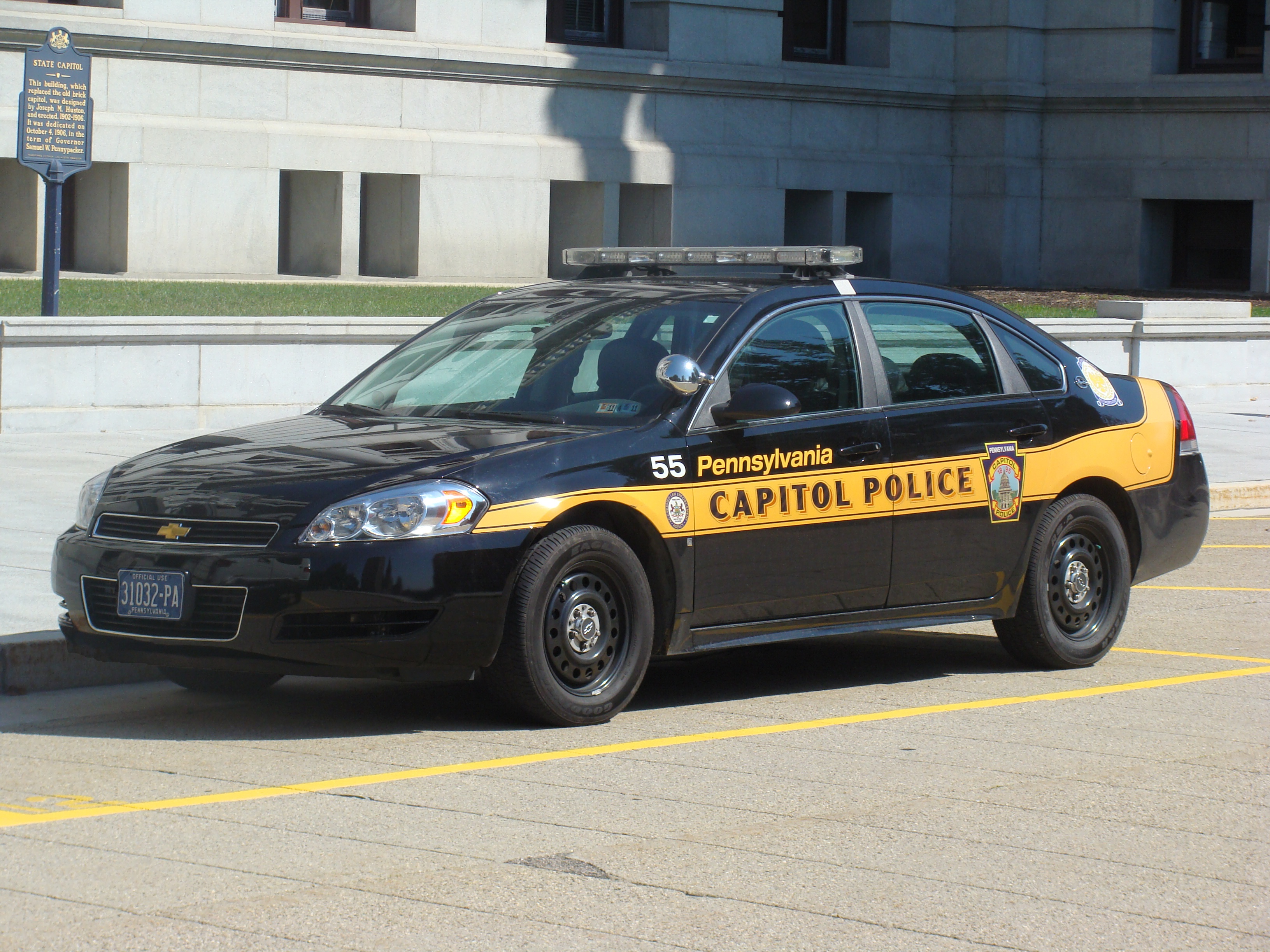 A Pennsylvania Capitol Police patrol car at the Pennsylvania State Capitol in Harrisburg, Pennsylvania.